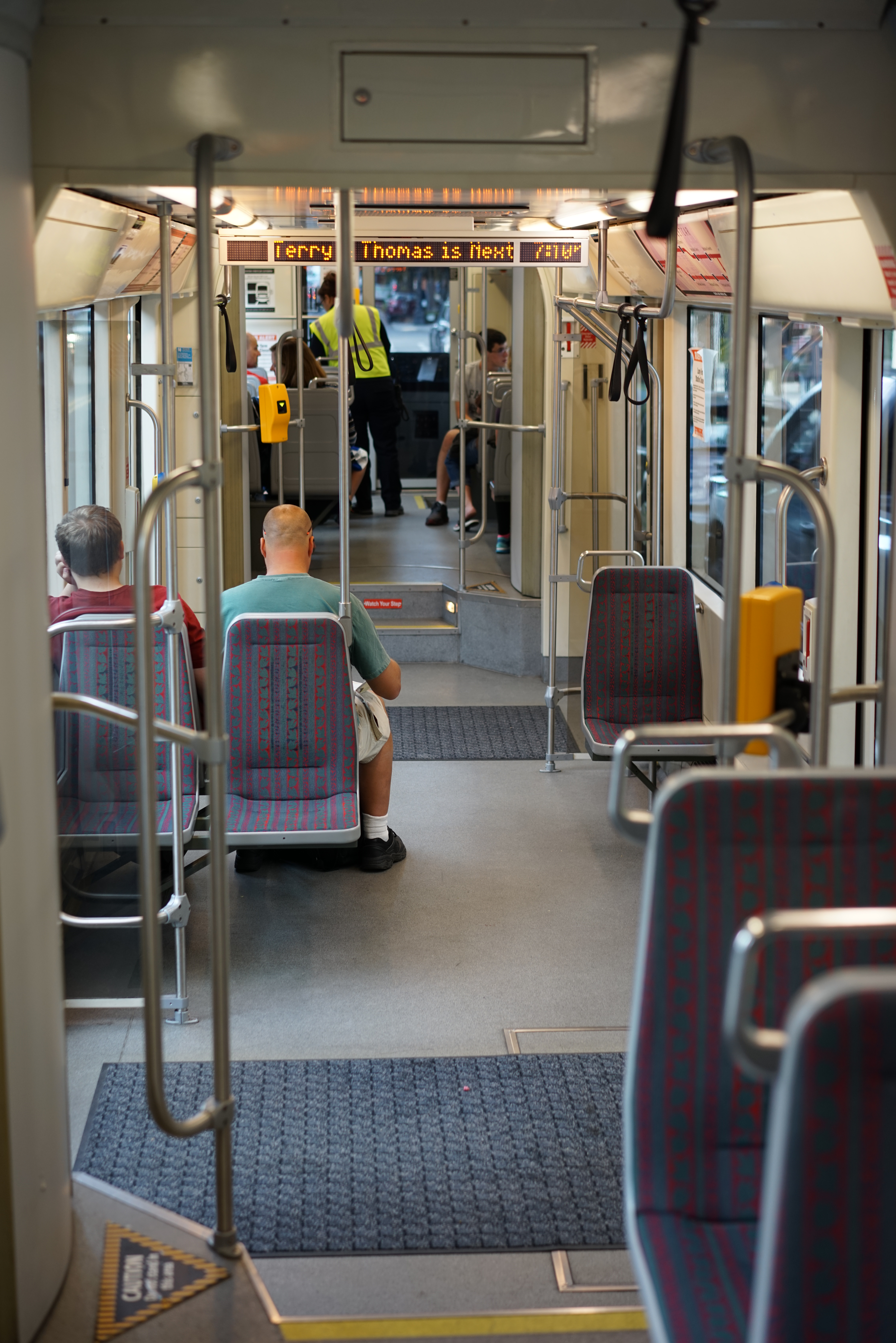 Interior of an Inekon 12-Trio streetcar on the South Lake Union Streetcar line in South Lake Union, Seattle.